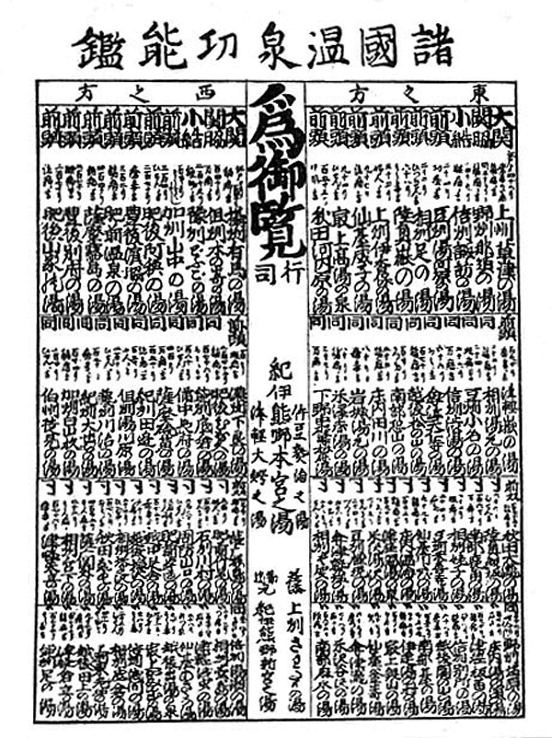 Shokoku Onsen Kounou Kan (諸国温泉功能鑑:lit. All countries Onsen (hot spring) effectiveness ranking list), issued on 1851 (Kaei 4) Feb. Issue date evidencing site: (in Japanese) Up-load after Higher resolution by PC maneuvering.